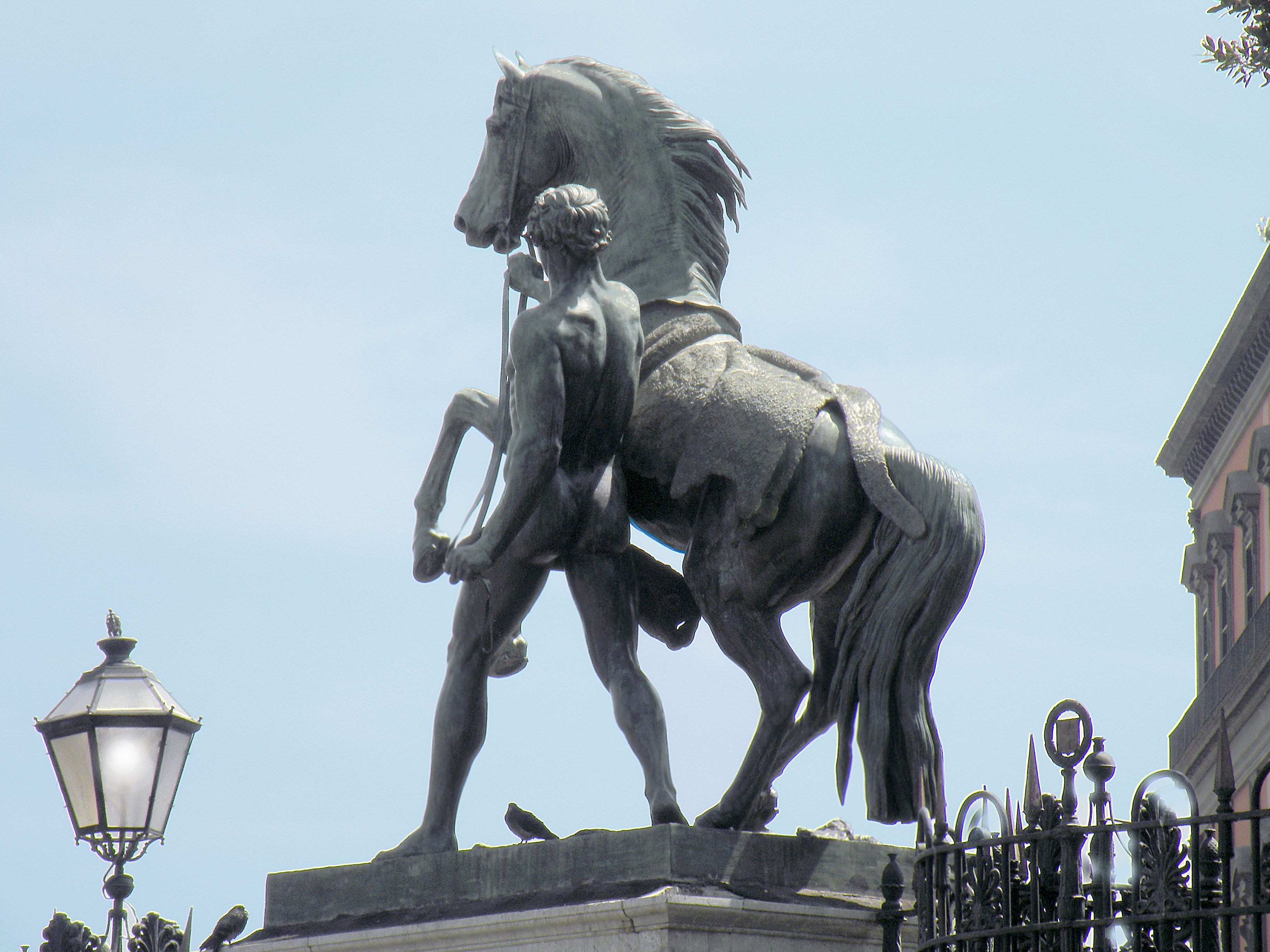 Naples.The steed of Klodt.Right group.